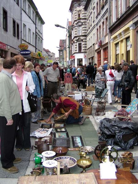 Days of Żary